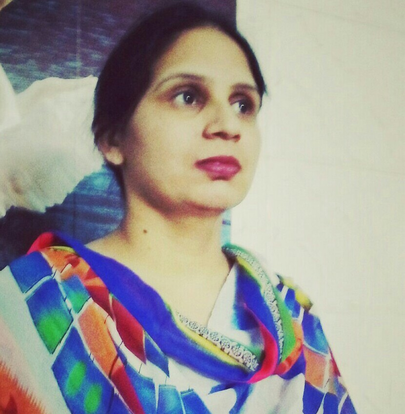 ਸਰਬਜੀਤ ਕੌਰ ਜੱਸ ਪੰਜਾਬੀ ਦੀ ਕਵੀਤਰੀ ਹੈ।